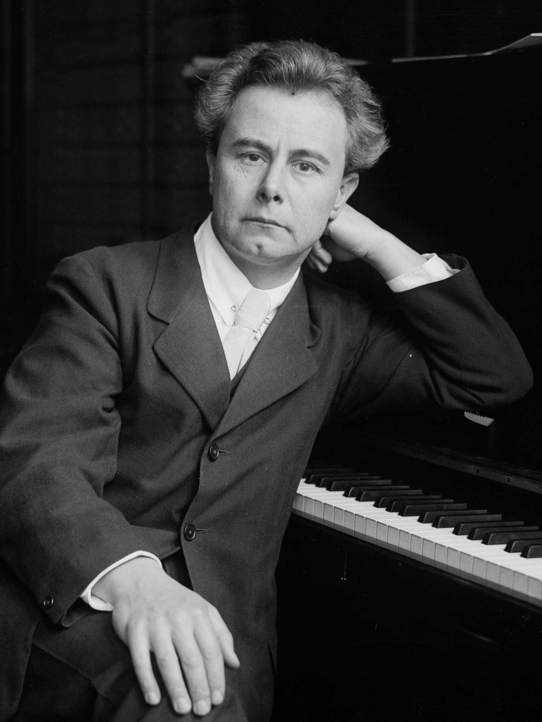 Polish-American pianist and composer Józef Hofmann (1876-1957)